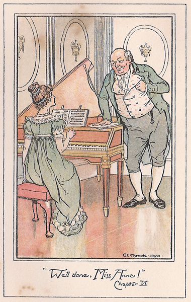 Persuasion (Jane Austen's last Novel), Ch. 6. "Well done Miss Anne! " said Mr Musgrove.